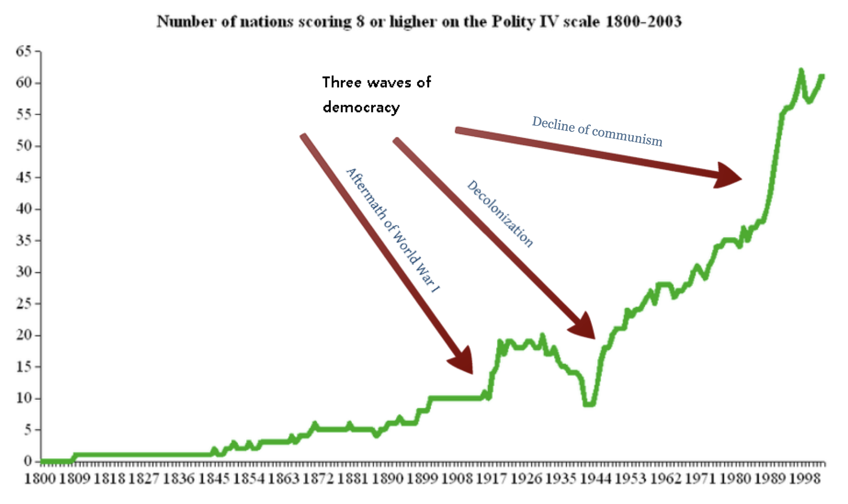 Waves of democracy. Based on File:Number of nations 1800-2003 scoring 8 or higher on Polity IV scale.png